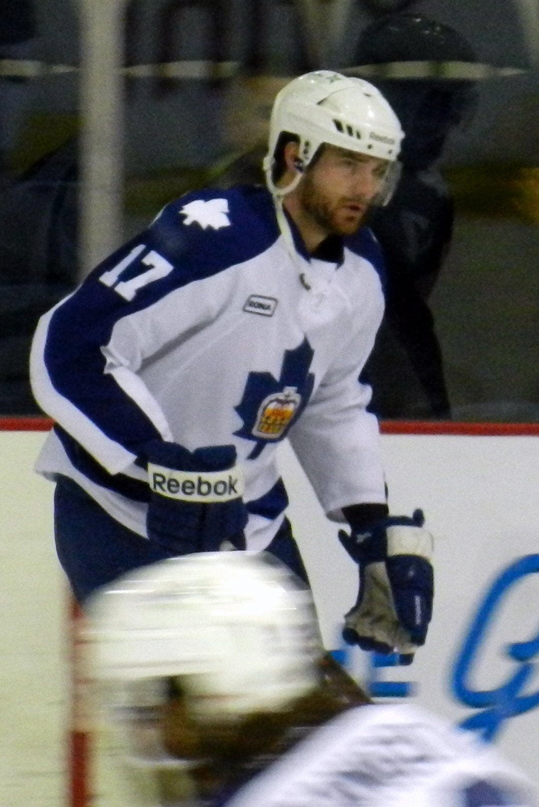 Paul Ranger playing for the American Hockey League's Toronto Marlies